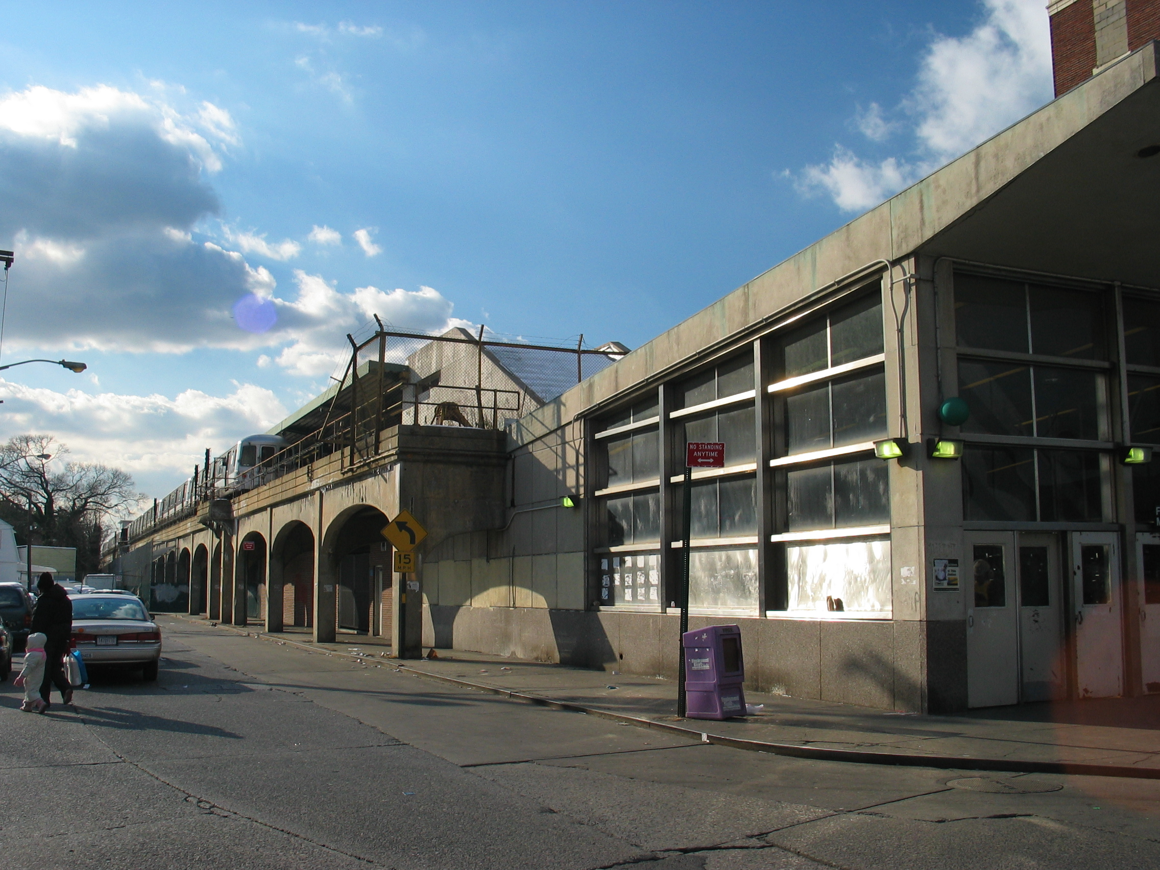 A line terminus at Mott Avenue Far Rockaway. See also File:Far Rockaway IND Street jeh.JPG.